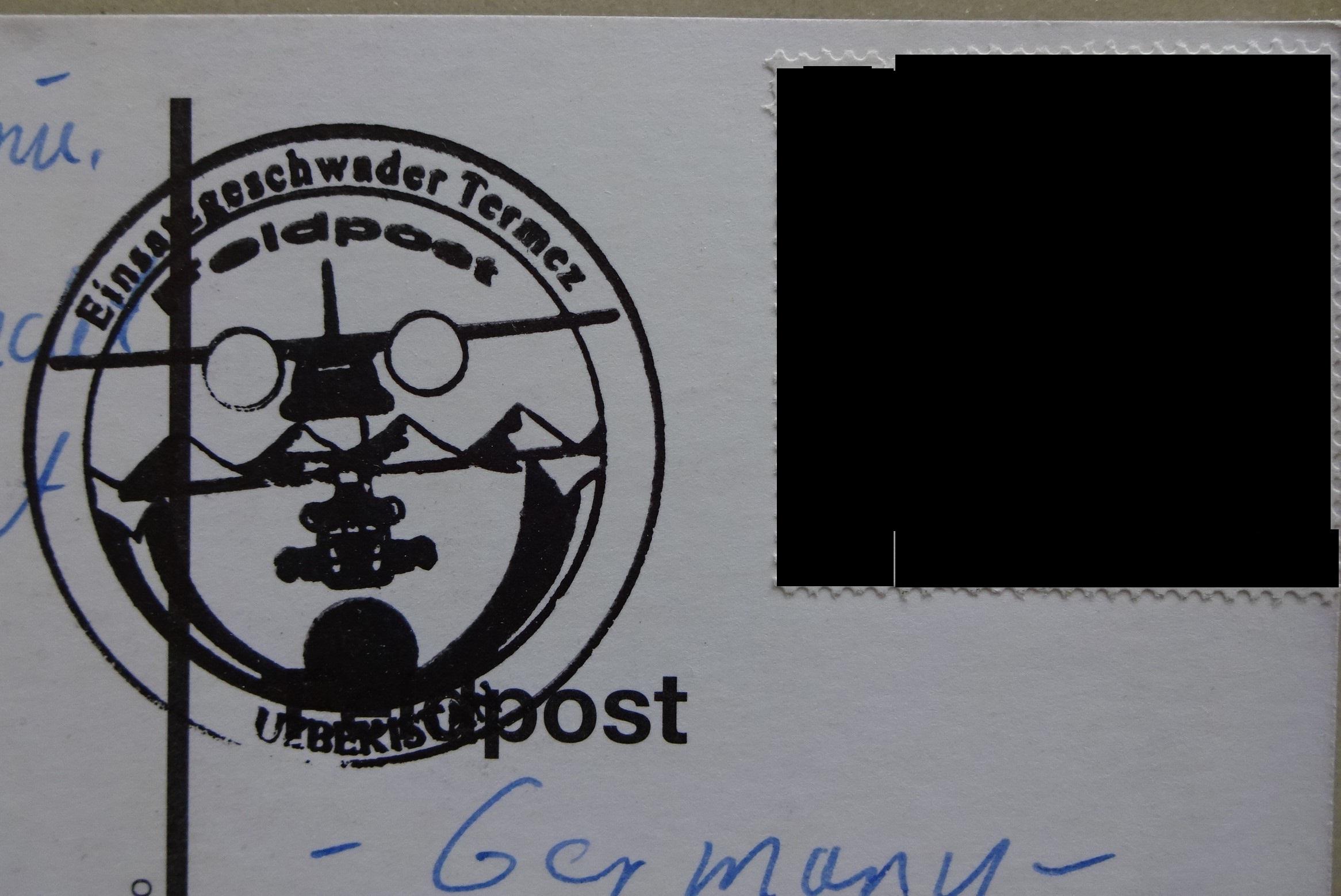 Military Mail German Armed Forces Afghanistan Termez